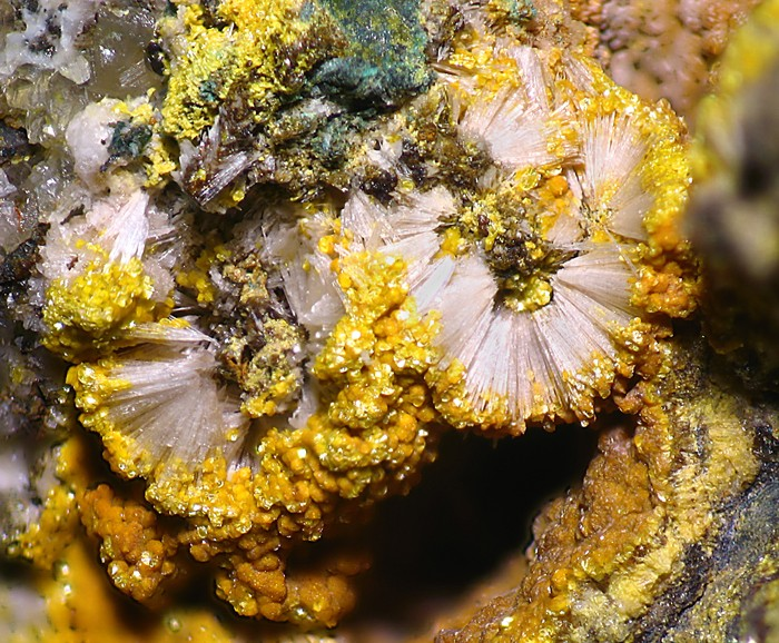 Yellow Tyuyamunite crystals on acicular radiated Calcite-Aragonite. Accompanied by Quartz and copper minerals. Field of view 5mm.